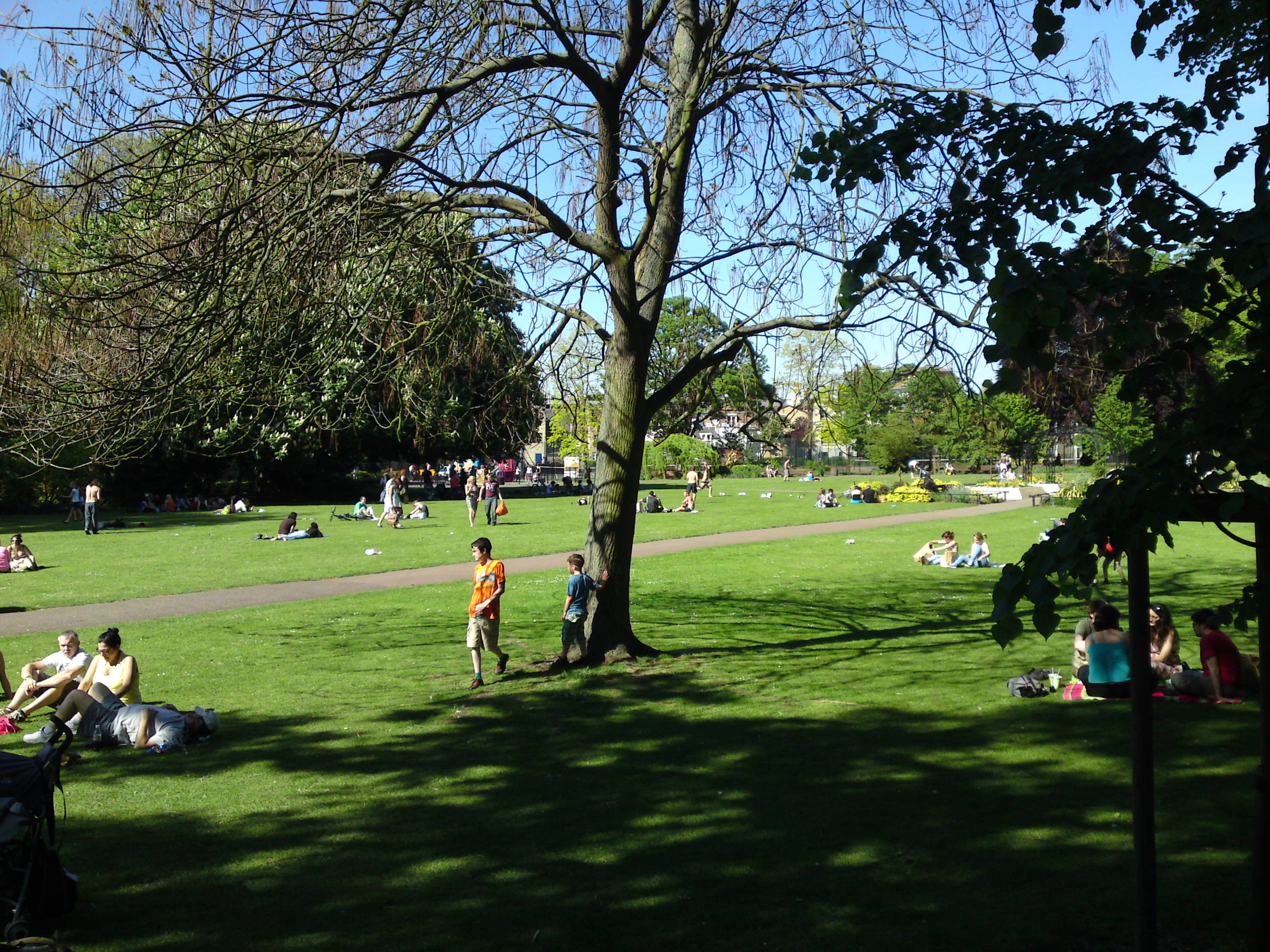 Photograph of Christ's Pieces, Cambridge, UK in the spring/summer with people relaxing on the grass.